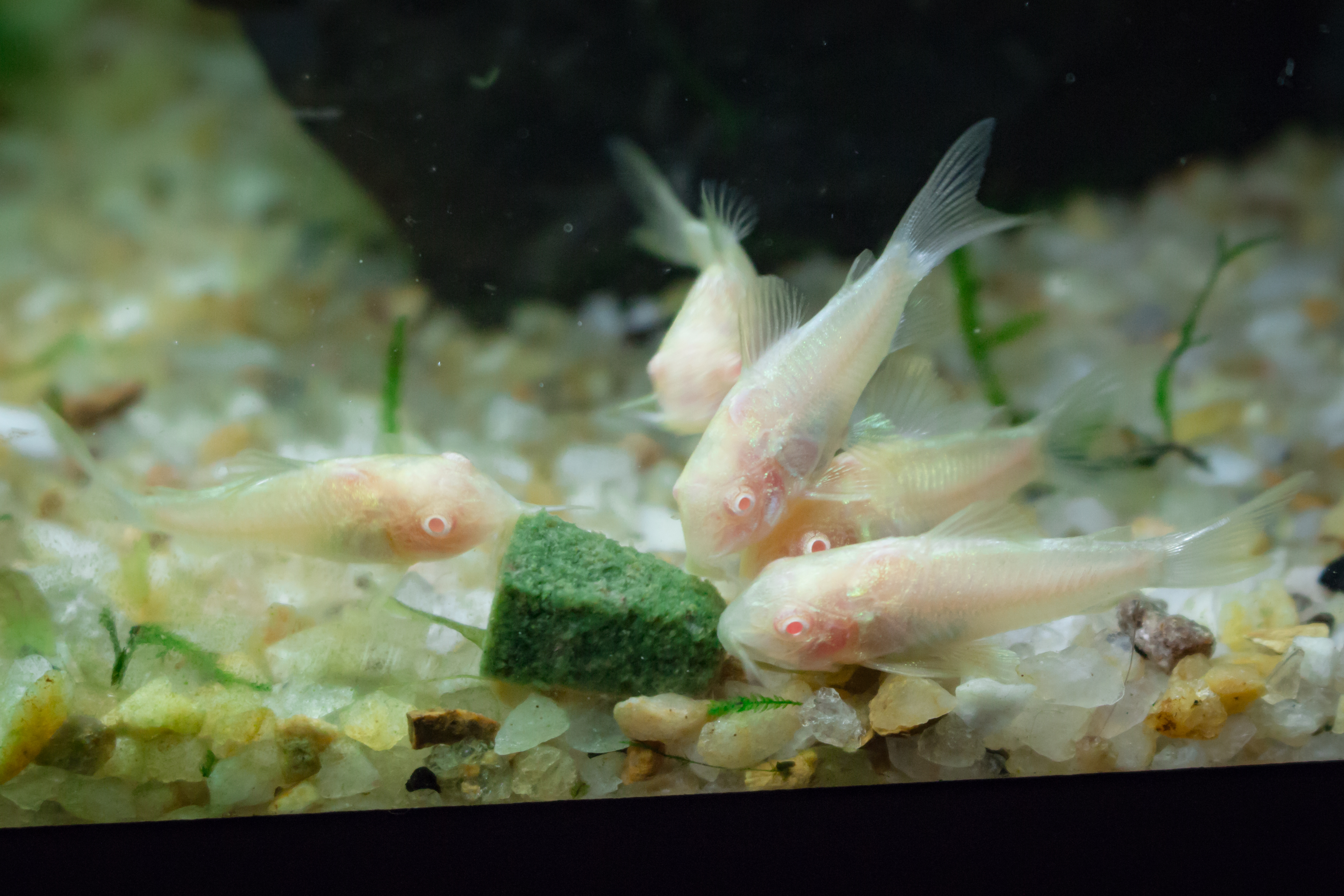 School of albinos Corydoras aeneus feeding.